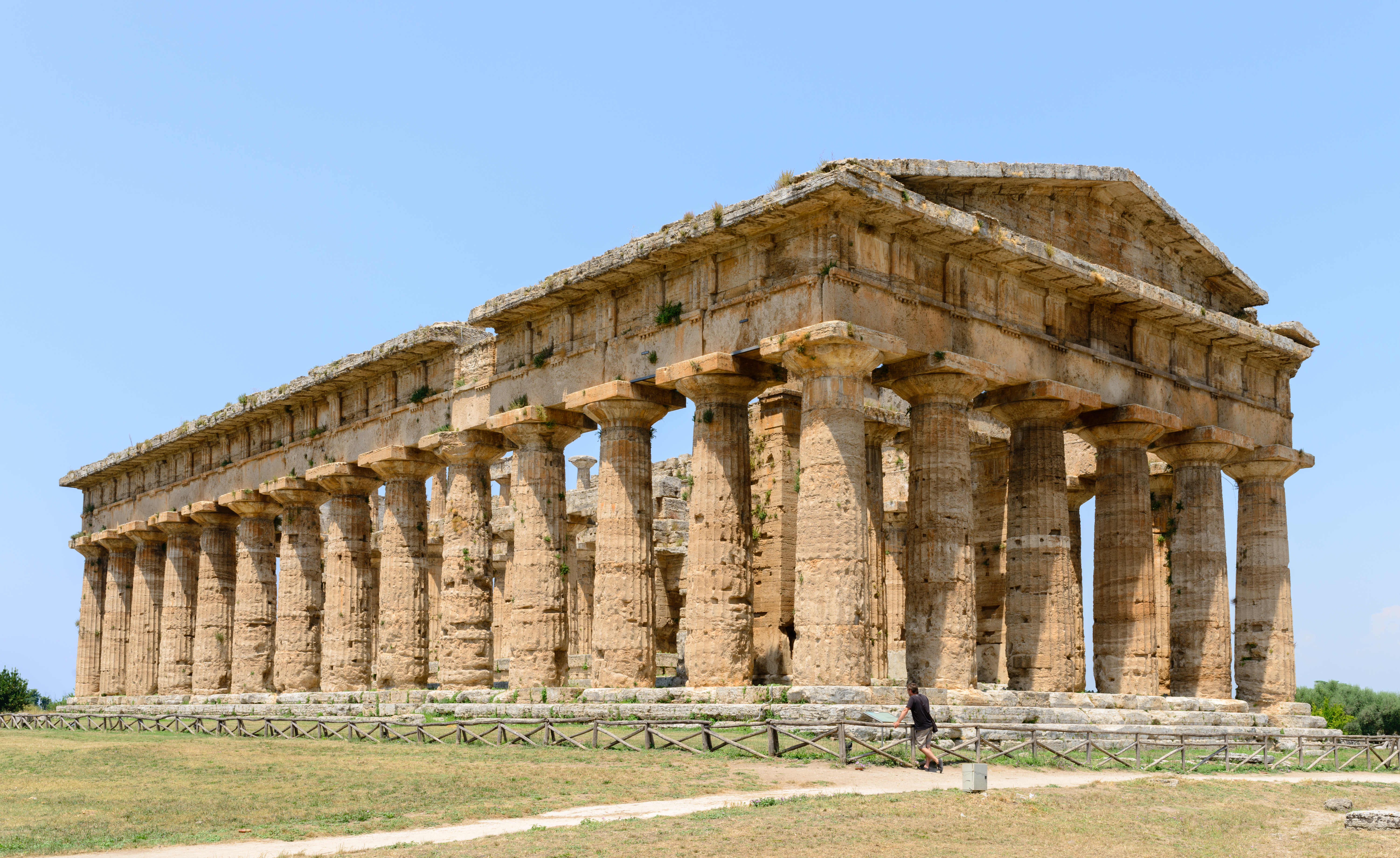 Second temple of Hera, also called Neptun temple or Poseidon temple, Paestum (Poseidonia), Campania, Italy.